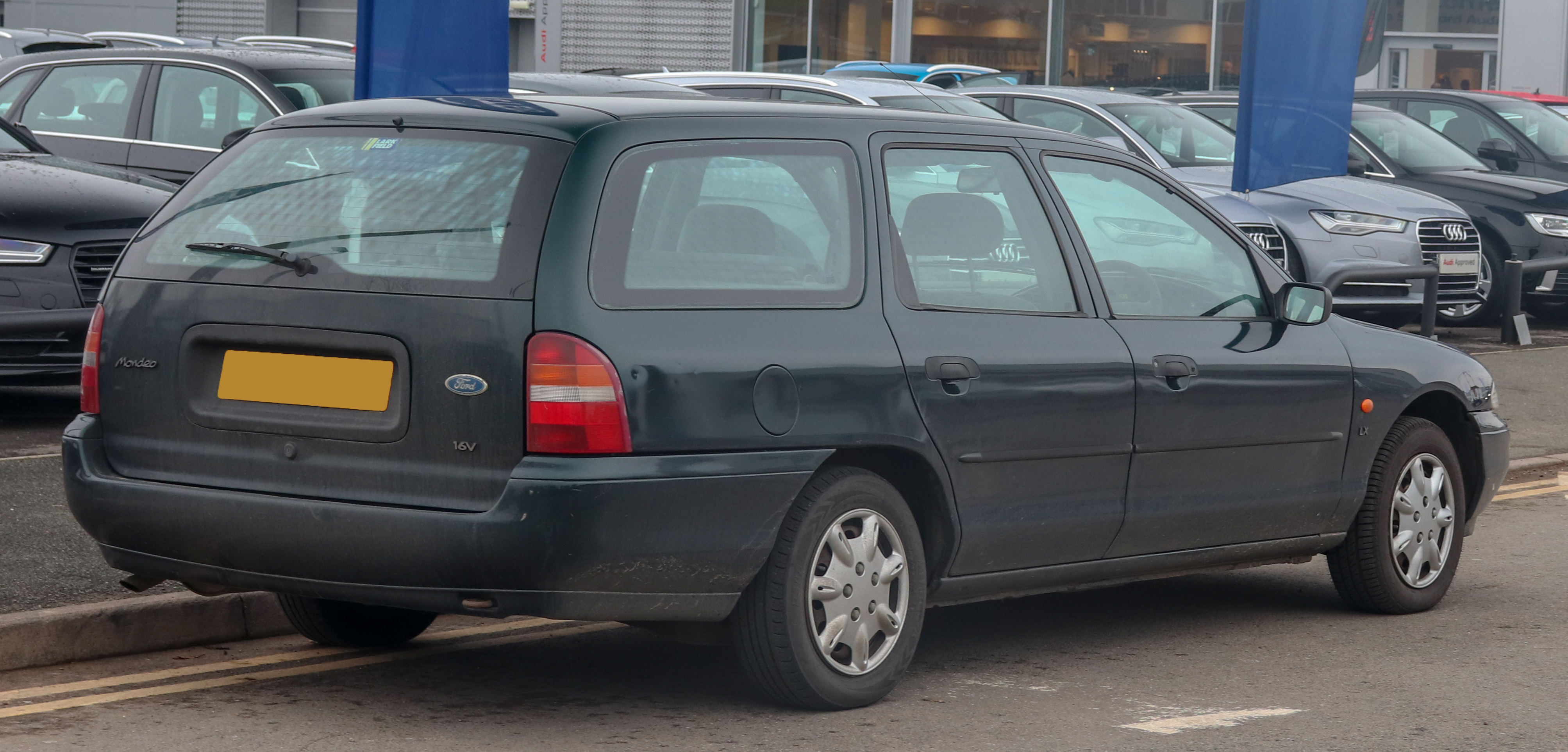 1996 Ford Mondeo LX Estate 1.8 Rear Taken in Stratford-upon-Avon